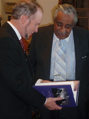 U.S. Consul General Slayton presents a copy of the book, Four Centuries of Friendship, to U.S. Congressman Charles Rangel at their meeting in Hamilton, Bermuda.